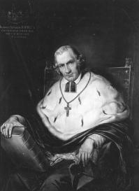 Jean-Arnold Barrett, bishop of Namur (1770-1835)